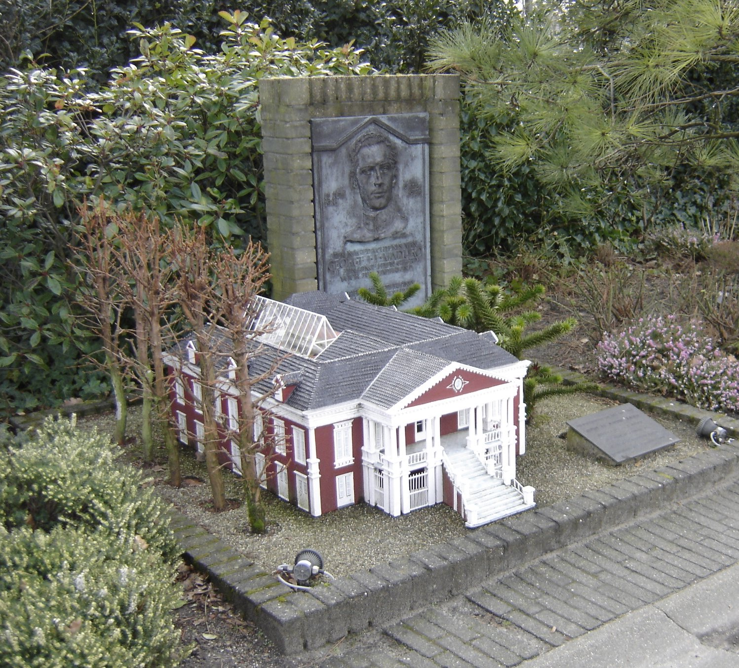 Birth house of George Maduro, Madurodam, February 19, 2006